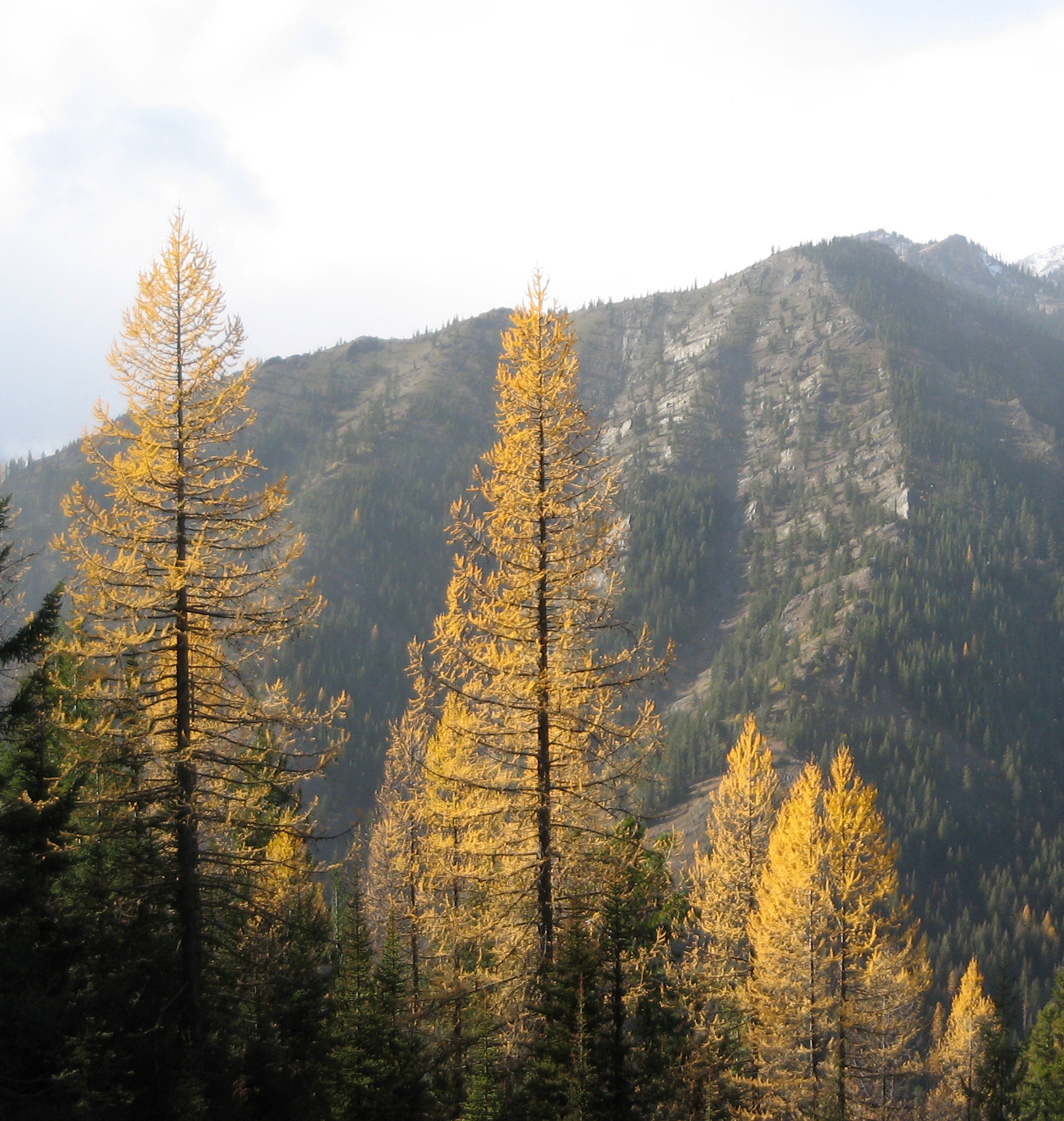 Larix occidentalis in fall colors. Navaho Ridge, Washington, USA.